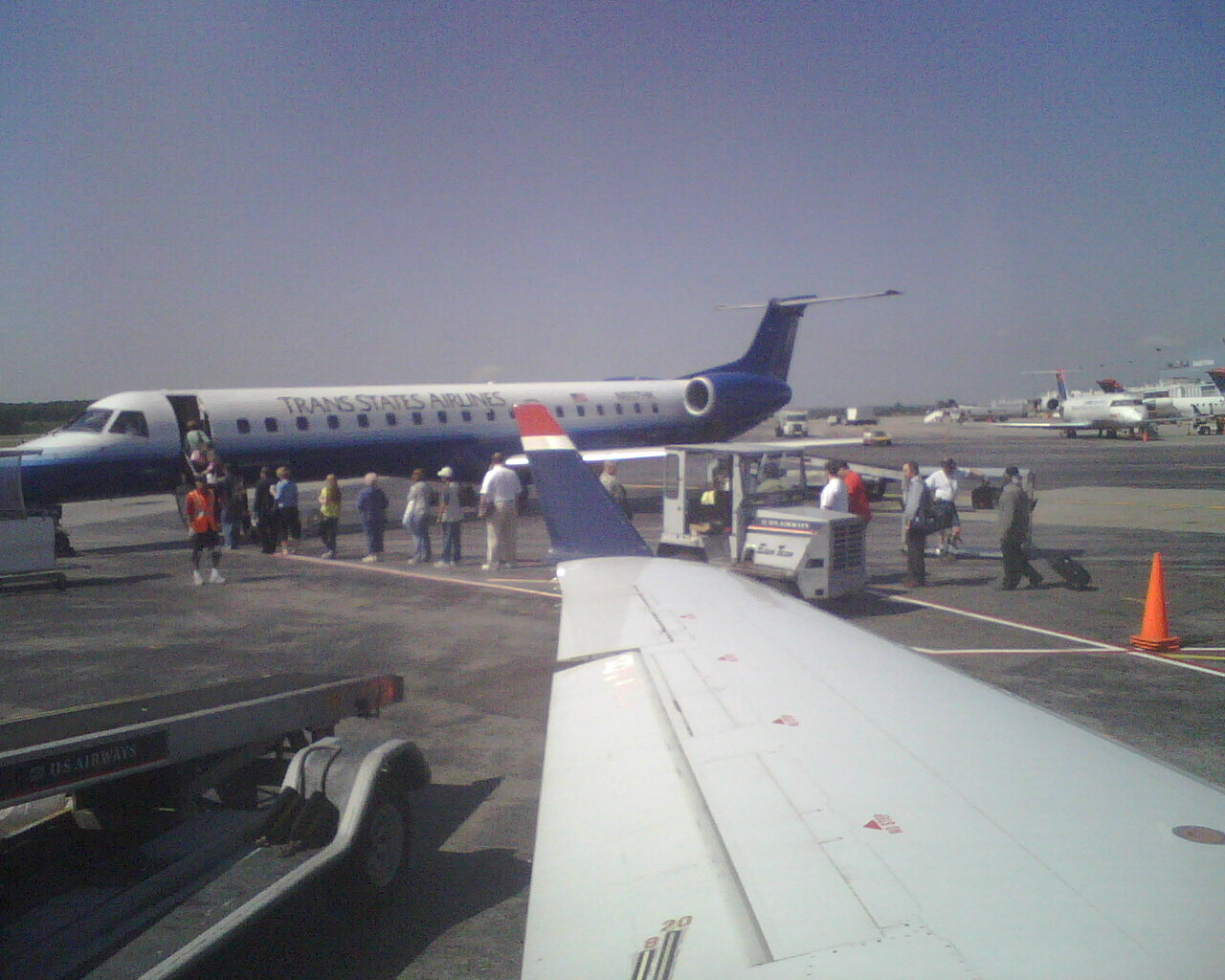 Someone pulled this ERJ-145 off the UX fleet in a hurry. RDU airport (aboard a US flight to LGA).